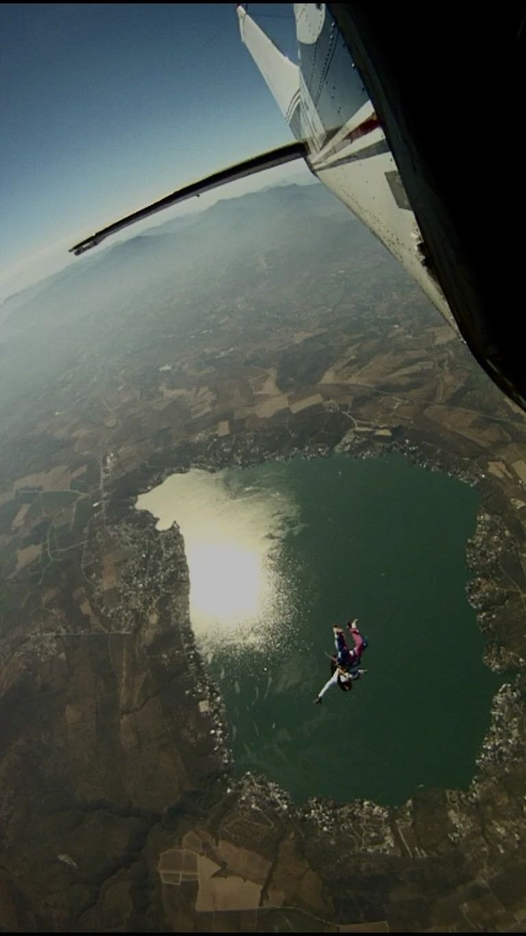 Skydiving Tequesquitengo